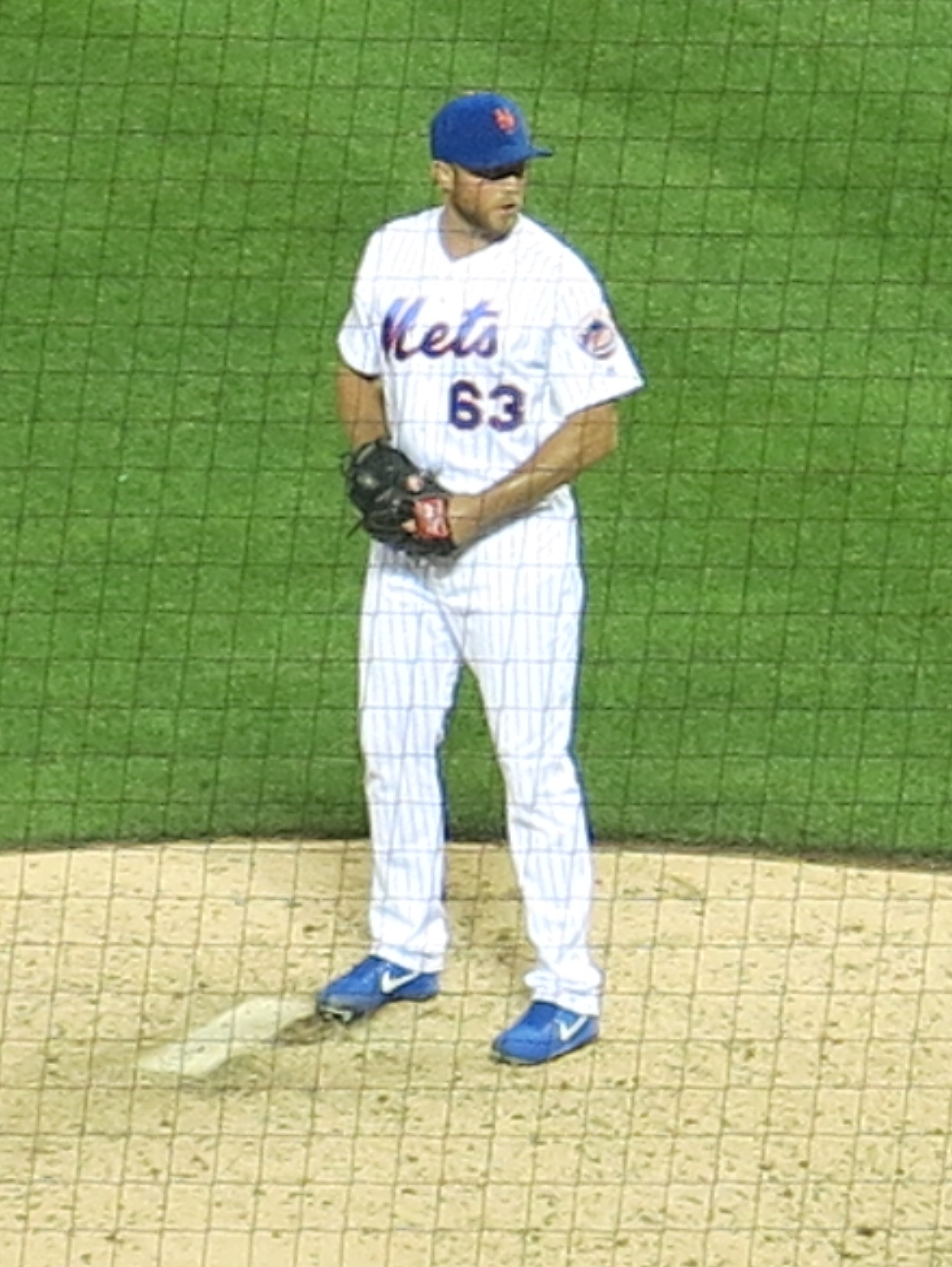 Tim Peterson on June 26, 2018